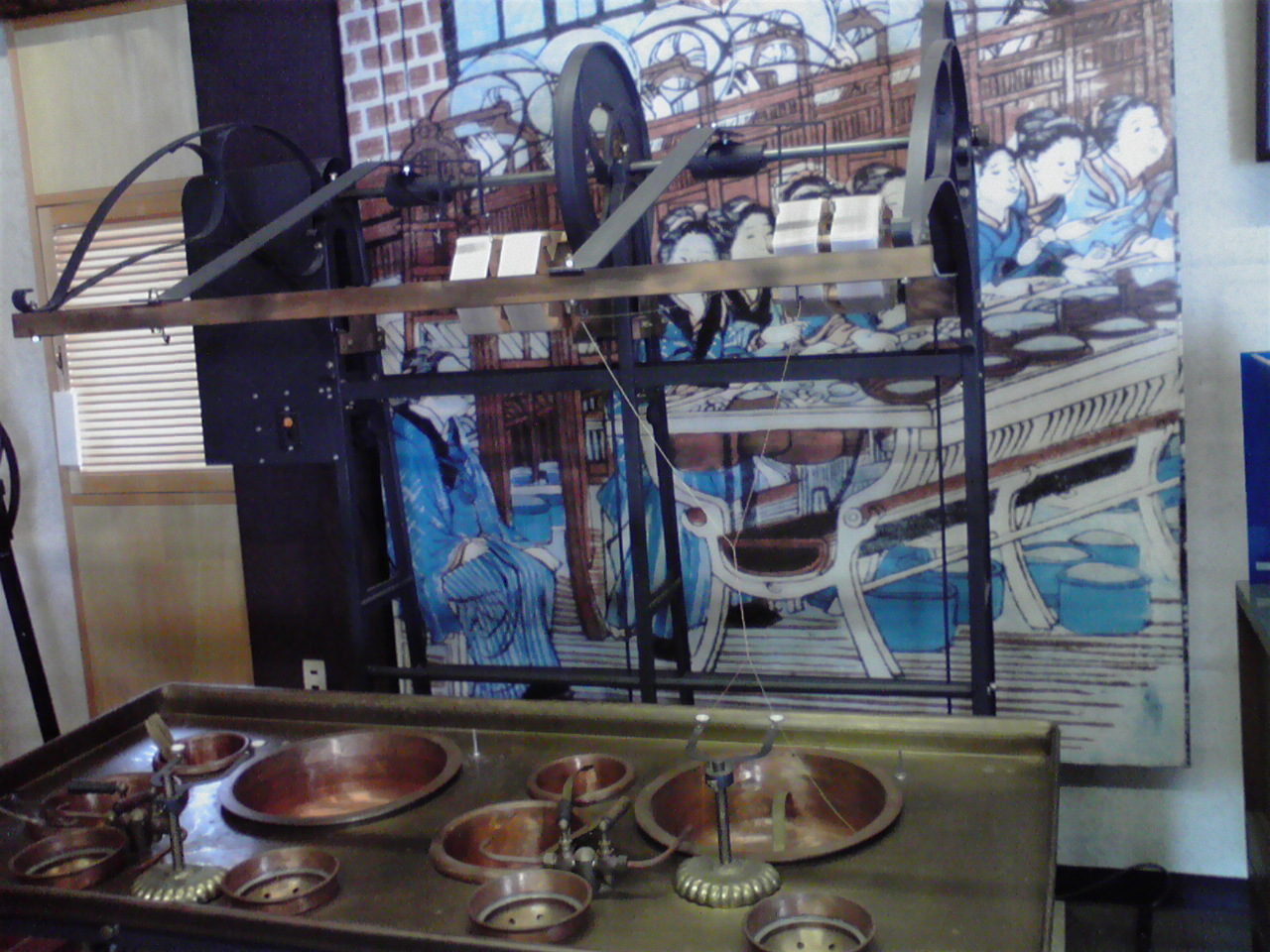 Filature machine of municipal Okaya silk museum.